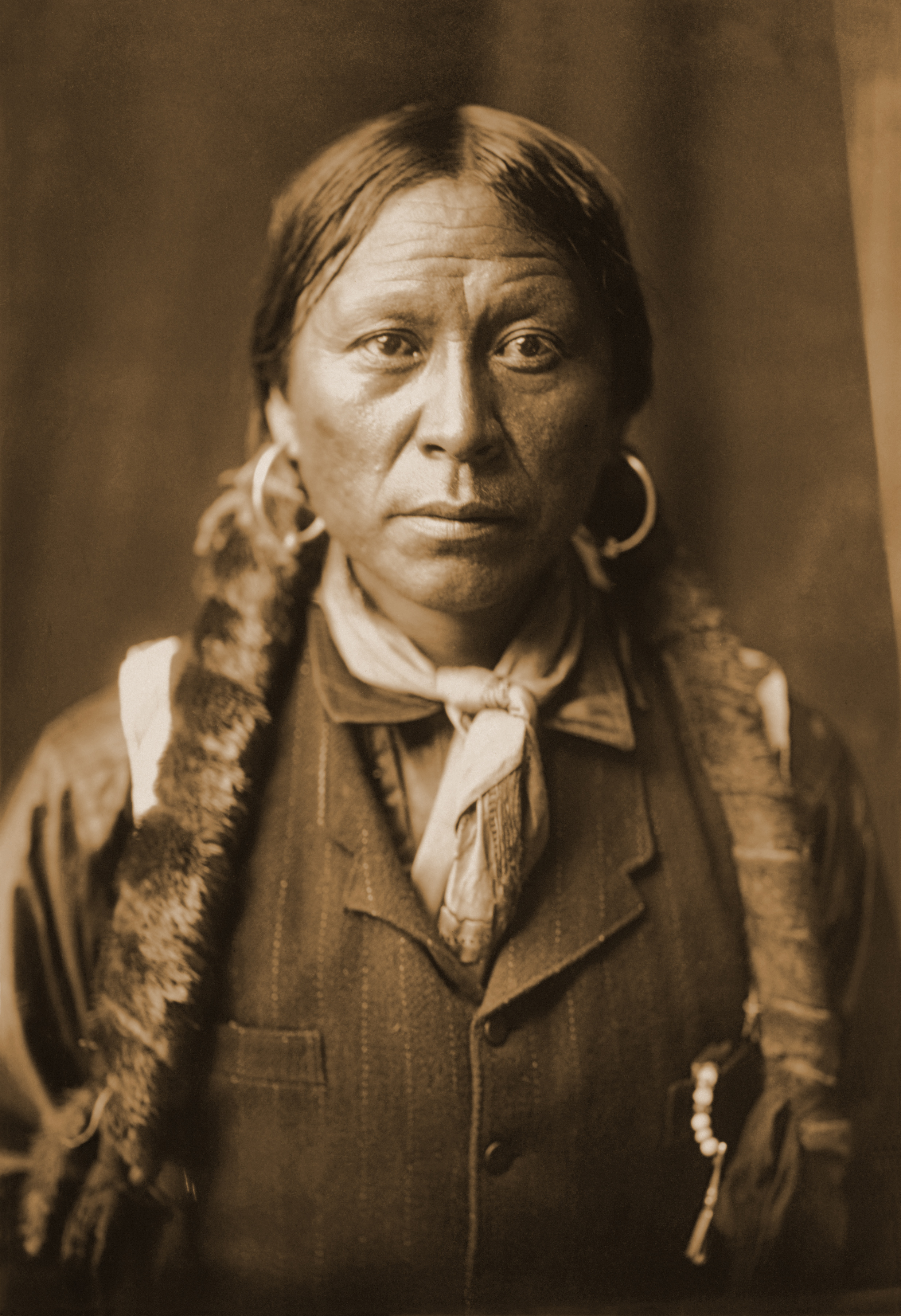 A head-and-shoulders portrait of a Jicarilla Apache man, photographed by Edward Sheriff Curtis circa 1904. The scan was made from a color film copy transparency.